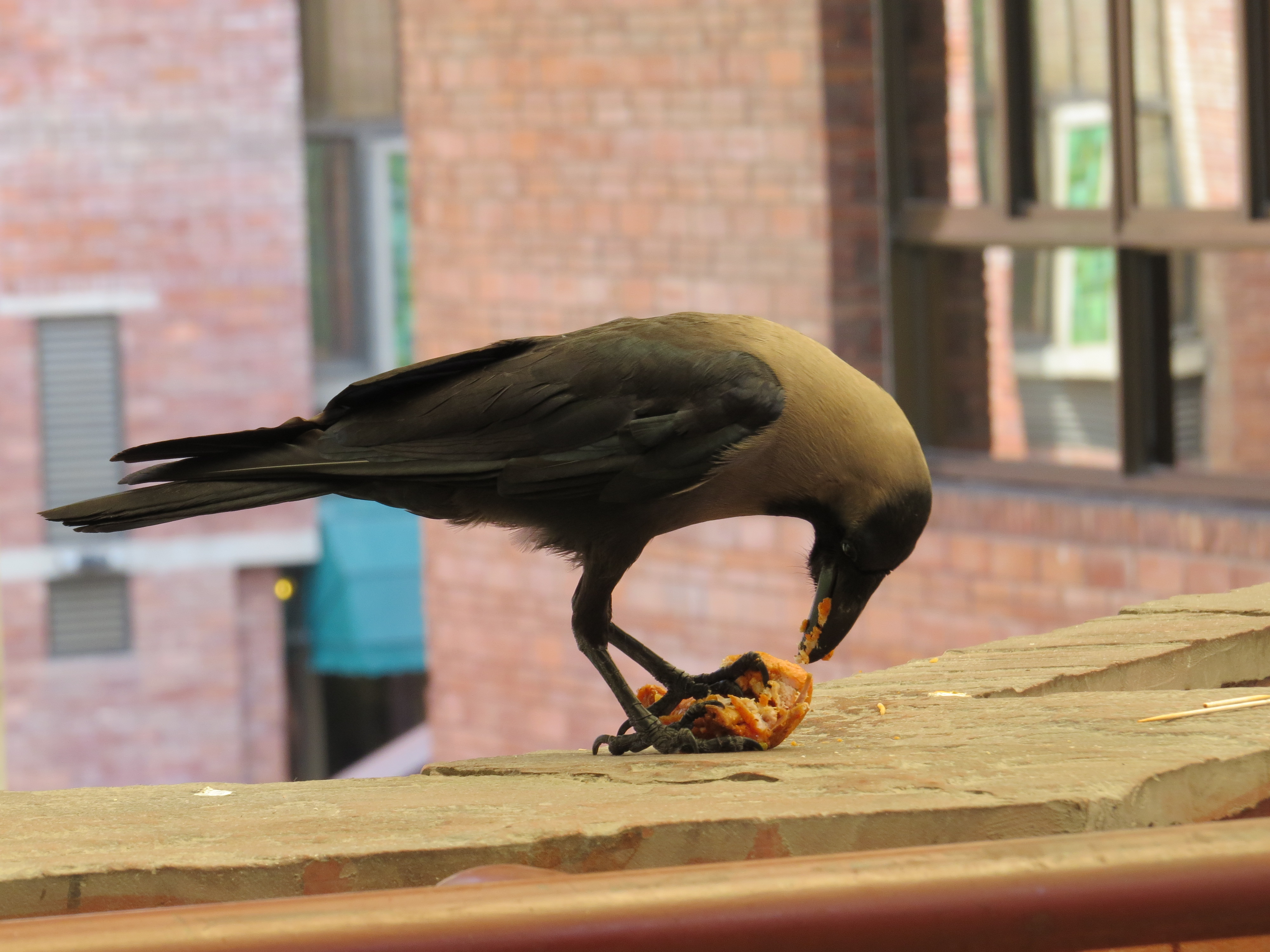 Corvus splendens Vieillot, 1817, House Crow, New Delhi, India, 15 September 2014